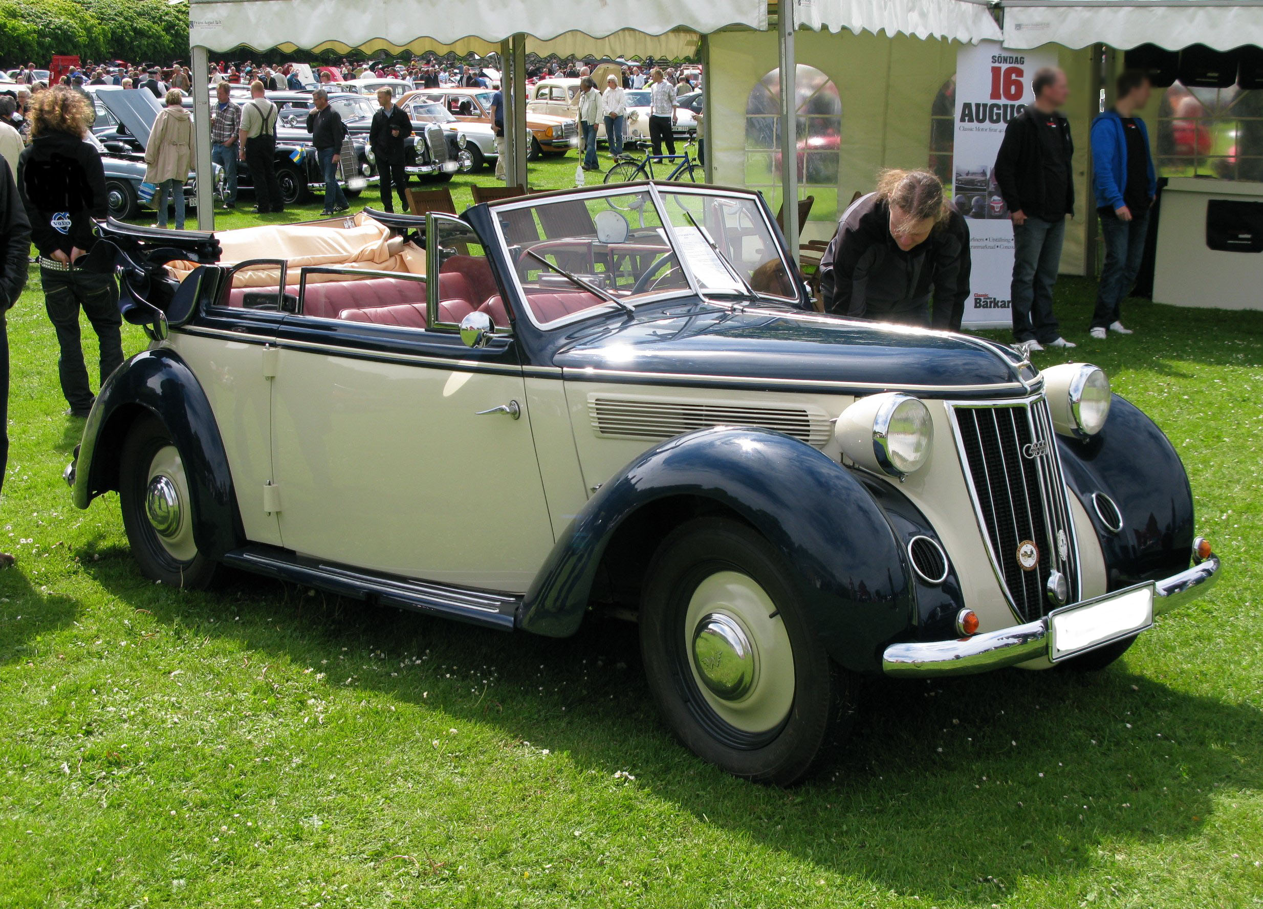 1937 Wanderer W24 cabriolet B. Event: Tjolöholm Classic Motor 2009